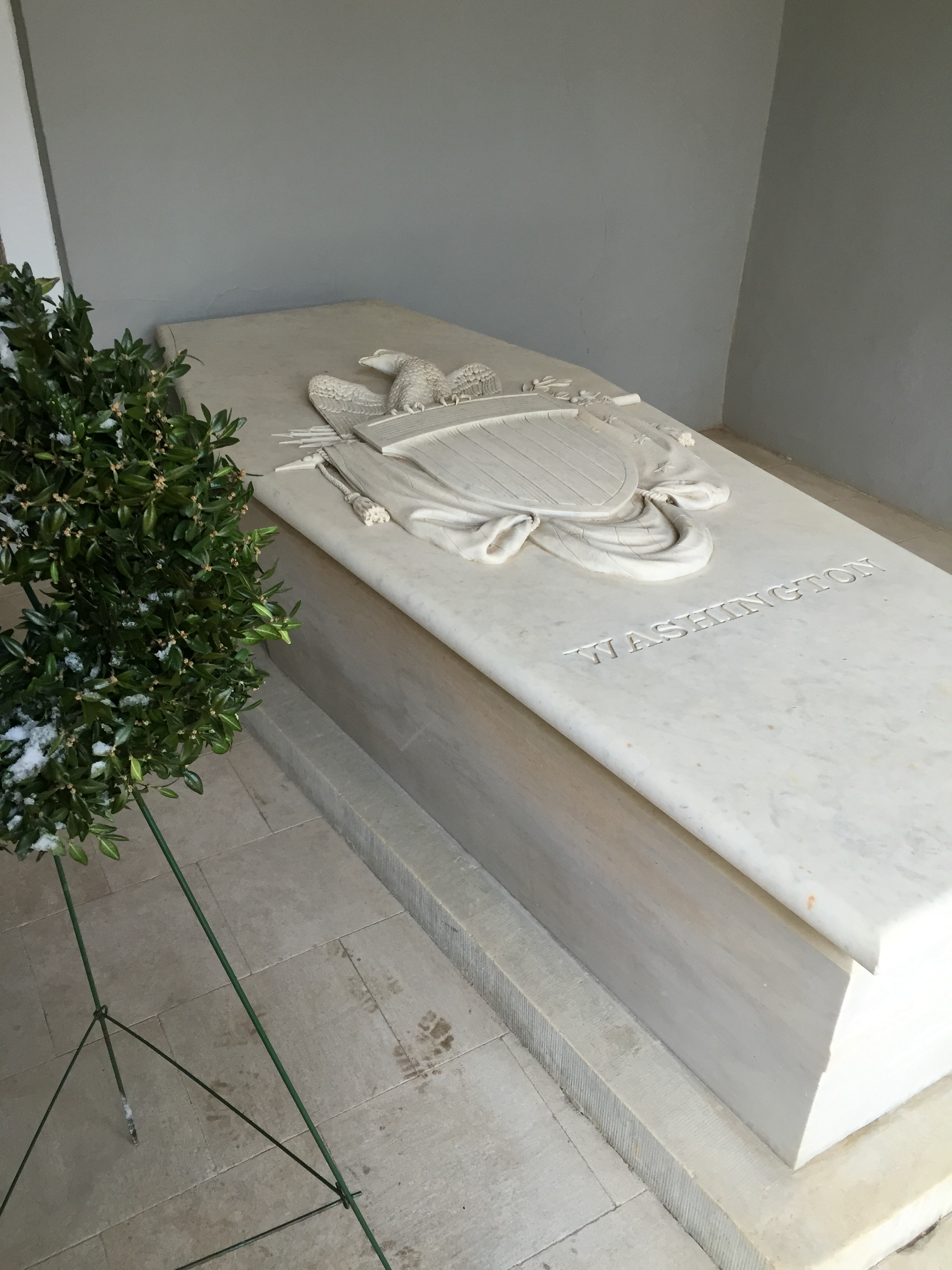 George Washington's tomb at Mount Vernon with Martha Washington.